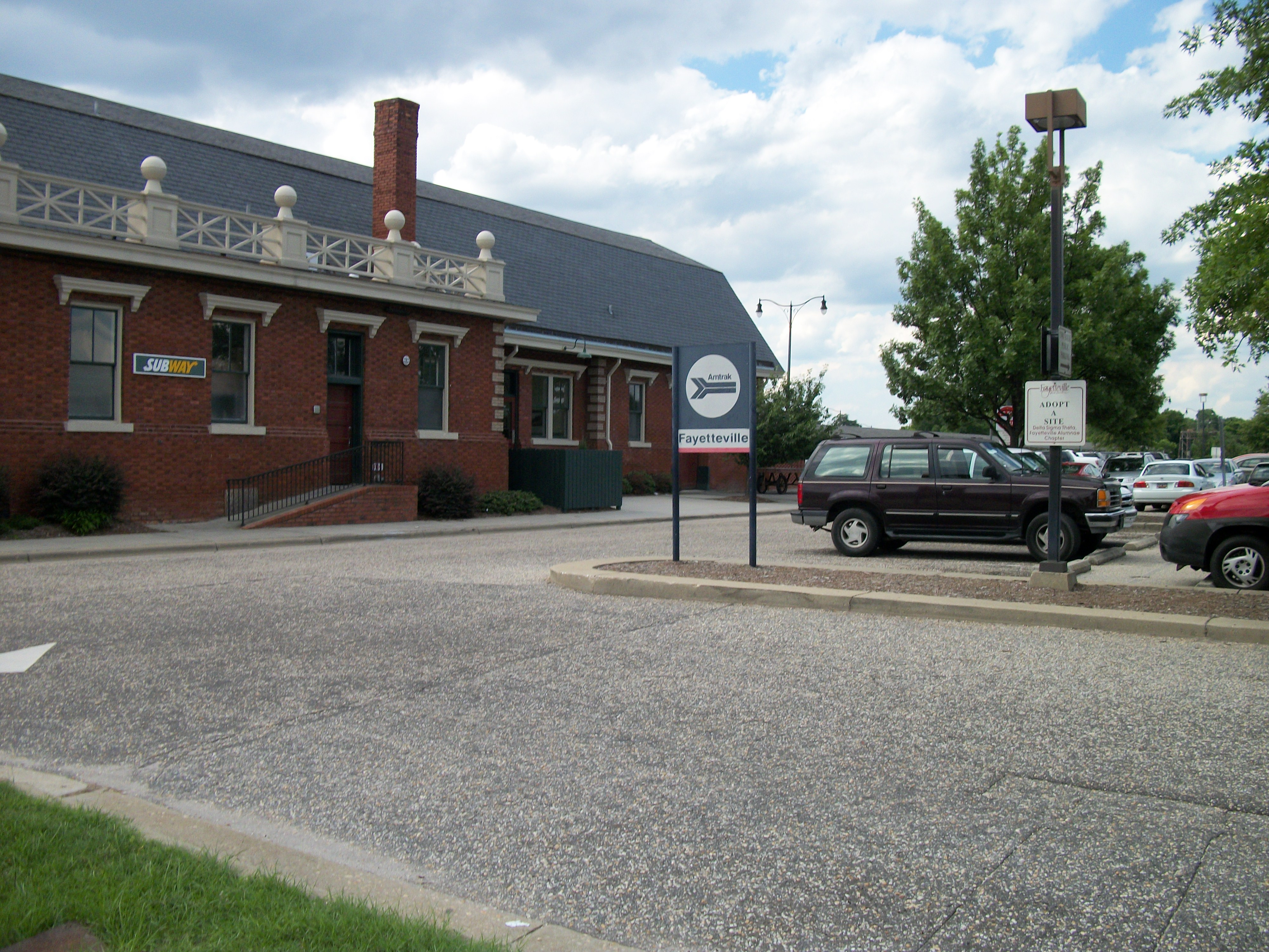 The parking lot for the historic Fayetteville (Amtrak station) in Fayetteville, North Carolina, which includes a sign with the 1971-2000 logo and sign for the Subway sub-shop franchise using it. The station is a former Atlantic Coast Line Railroad station listed on the National Register of Historic Places.